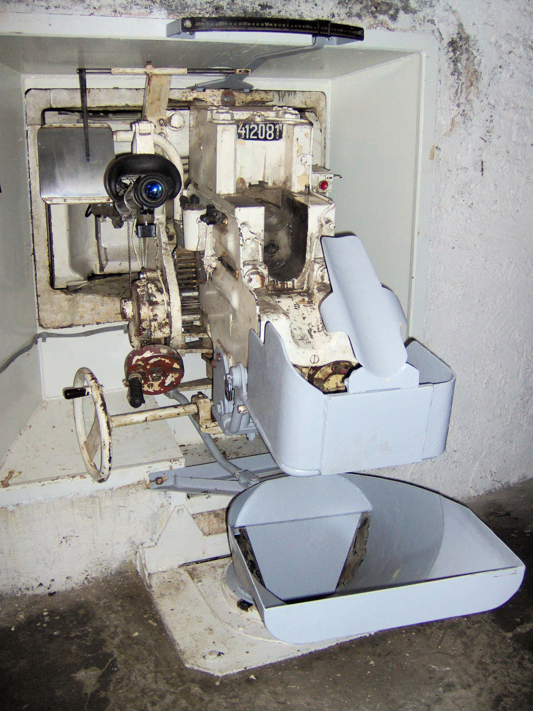 MJ-S 4 Zatáčka infantry casemate, Znojmo District, Czech Republic